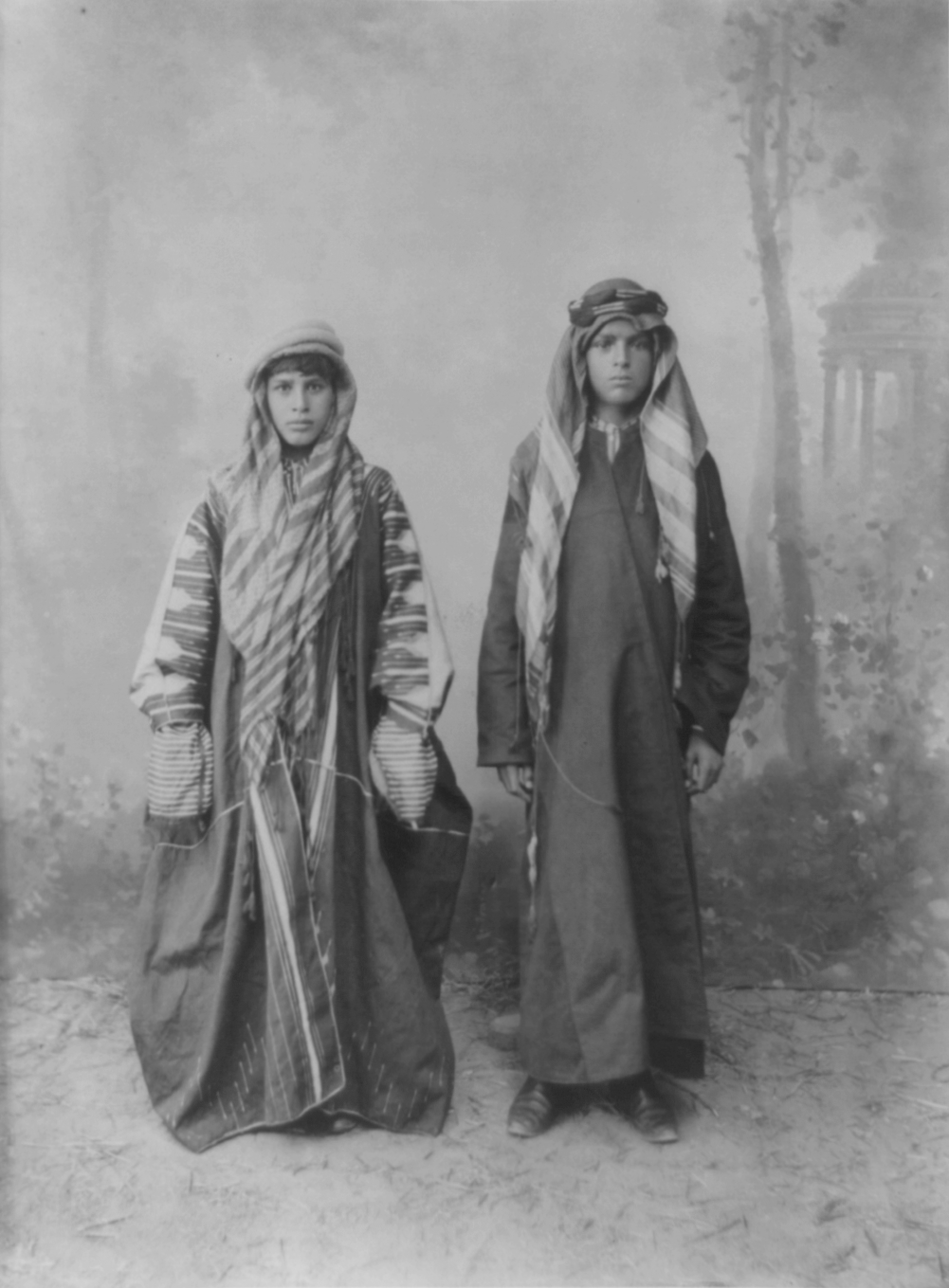 Students of Mekteb-i Aşiret-i Humayun (Imperial Tribal School), which was an Istanbul school founded in 1892 by Abdulhamid II to promote the integration of tribes into the Ottoman empire through education. Abdullah Frères — Viçen (1820-1902), Hovsep (1830-1908) and Kevork Abdullah (1839-1918): three armenian brothers who ran a commercial studio in Constantinople with branches in Cairo and Alexandria. In 1862, named official photographers to the court of Sultans Abdul Aziz and Abdul Hamid II, they were commissioned to document the Ottoman Empire.